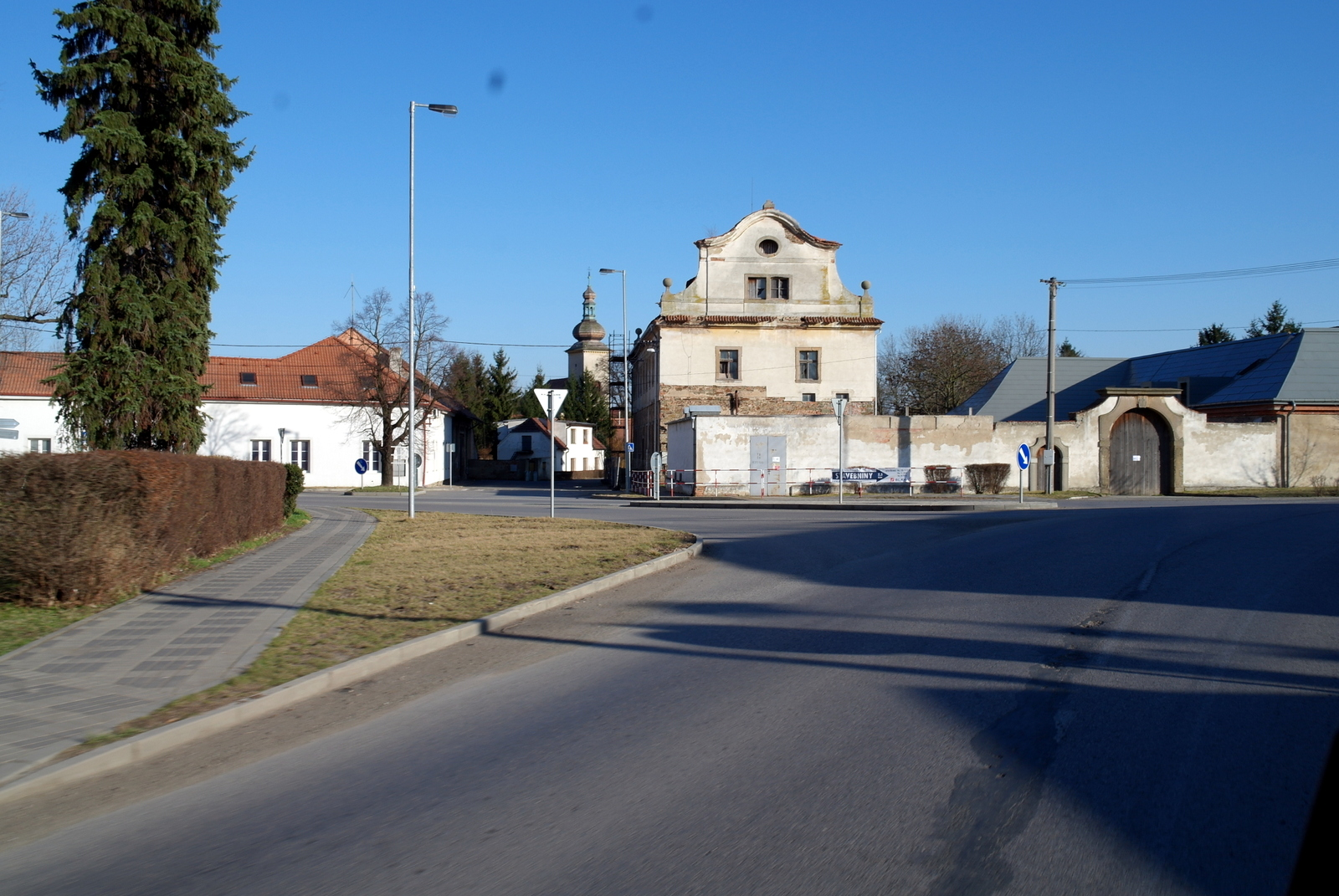 Coaching inn (Tursko) Tursko. View from the square.